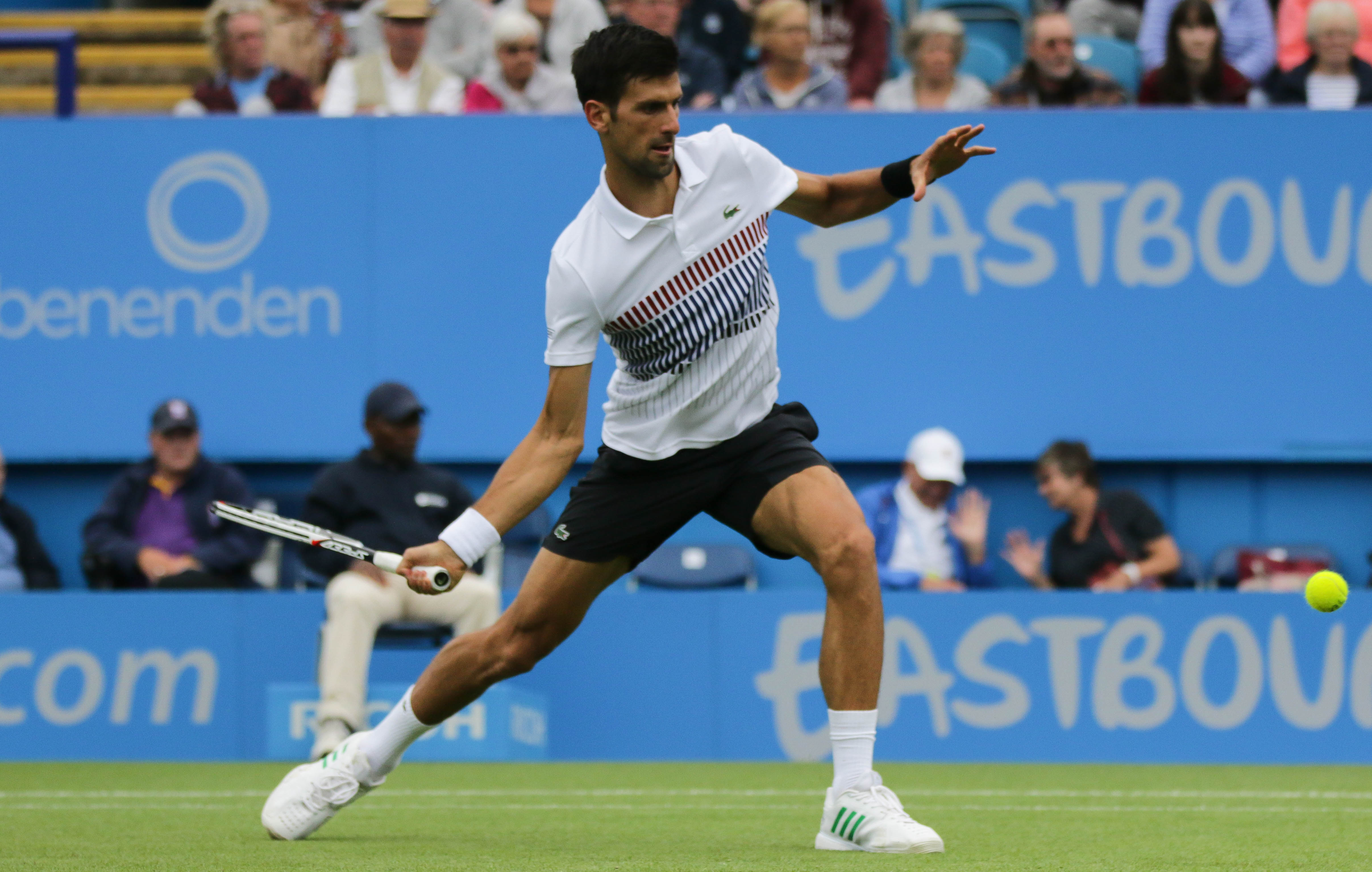 Eastbourne tennis 2017-229.jpg